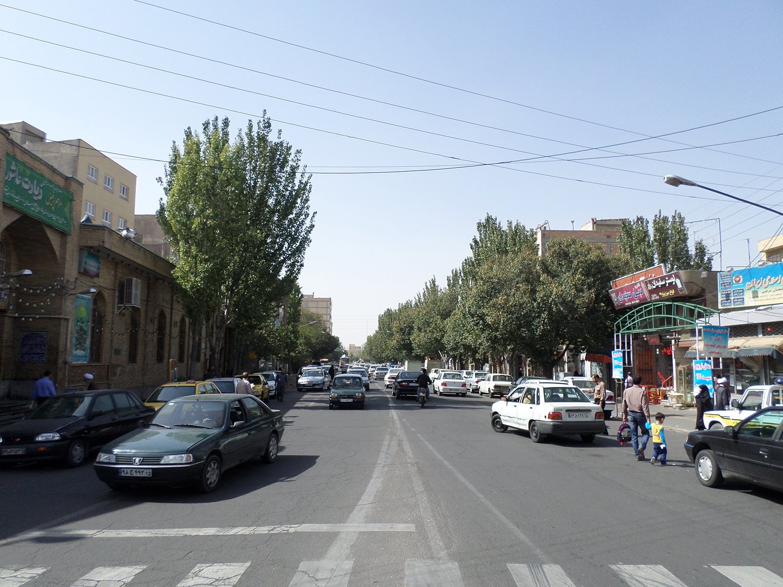 Akhuni District